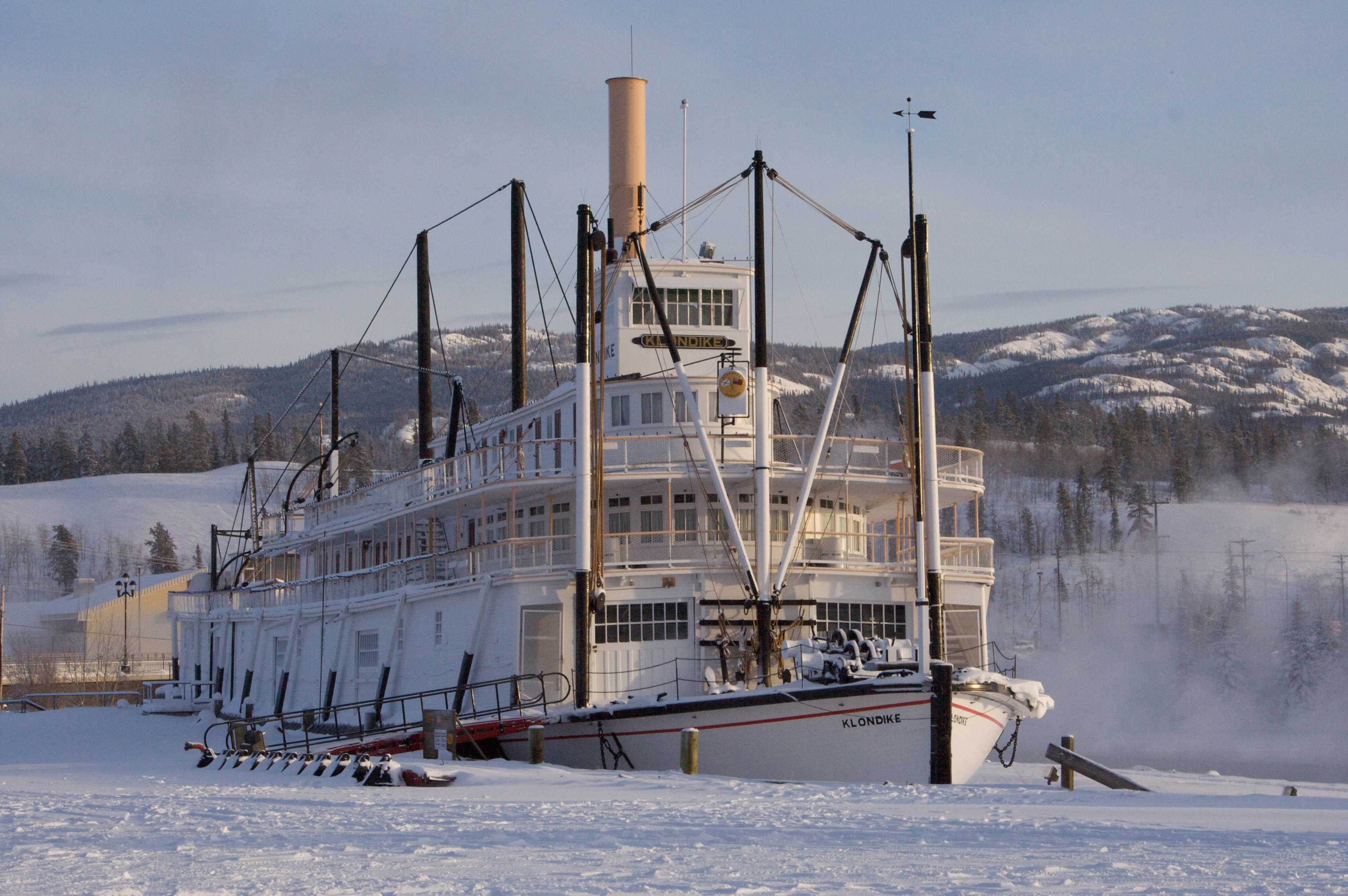 SS Klondike